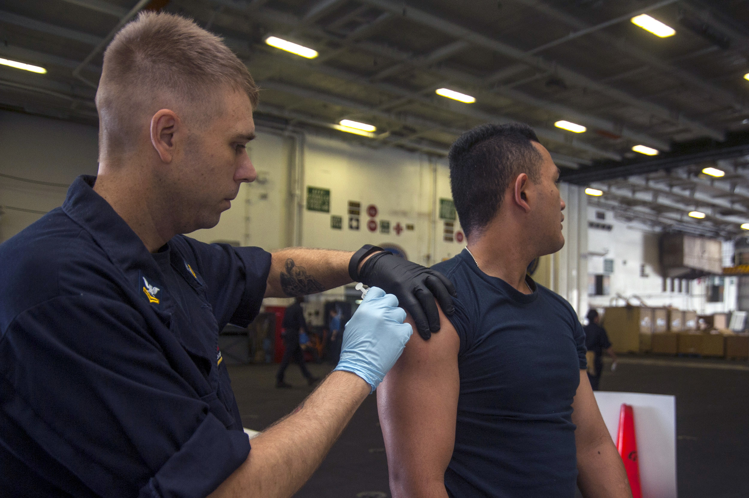 151002-N-QH848-026 ATLANTIC OCEAN Hospital Corpsman 2nd Class I. Elledge gives Aviation Boatswain's Mate Airman Recruit R. Rosario a flu vaccination in the hangar bay of aircraft carrier USS Harry S. Truman. Truman is at sea to sortie in response to Hurricane Joaquin.